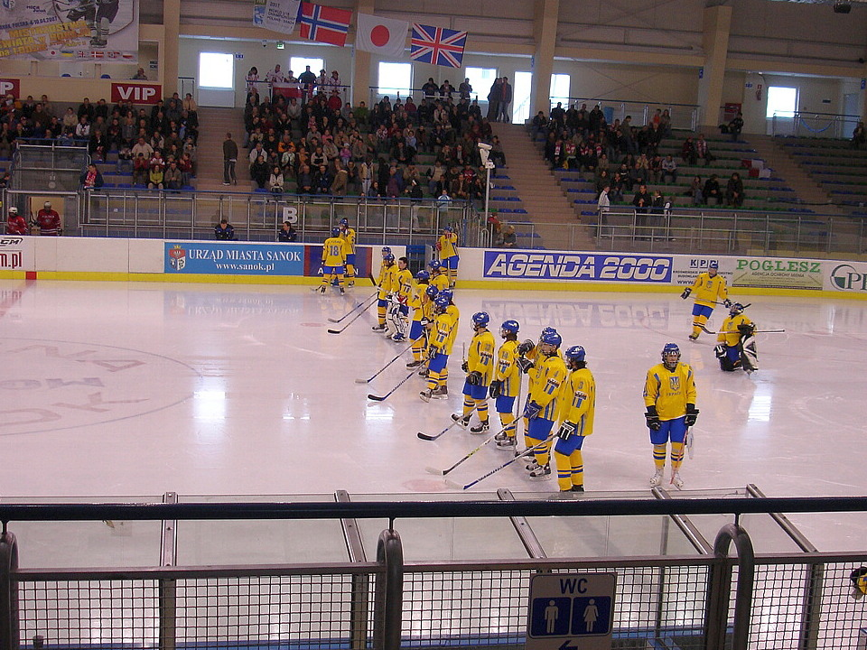 Ukrainian hockey team in Sanok.